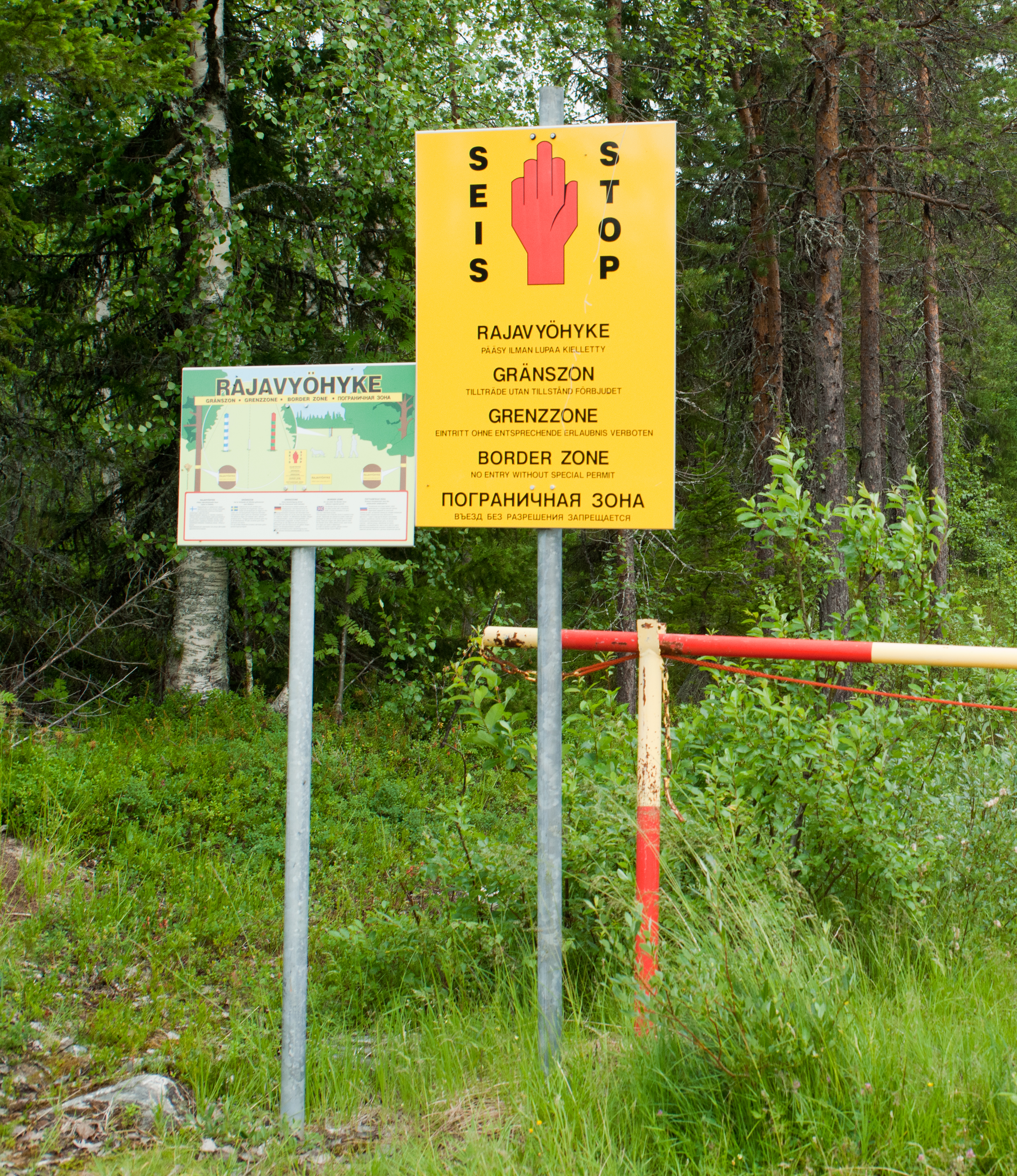 Finnish-Russian border in Paljakka, Kuusamo, Finland.